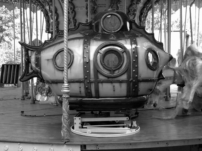 Lift used in a merry-go-round, "Nautilus" (Concept 1900 International), inspired by 20,000 leagues Under The Sea by Jules Verne.